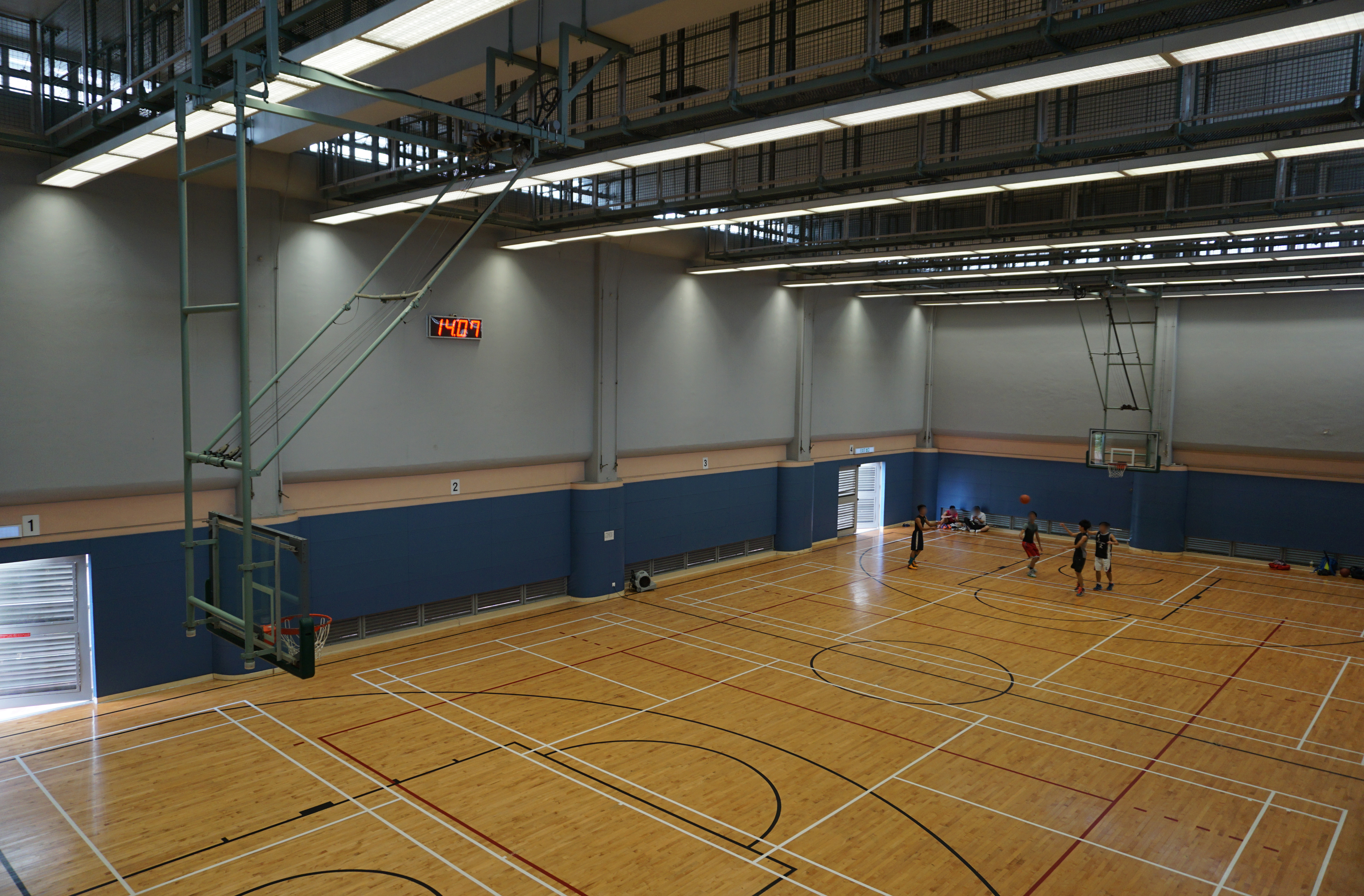 Fu Shin Sports Centre in Tai Po, Hong Kong.